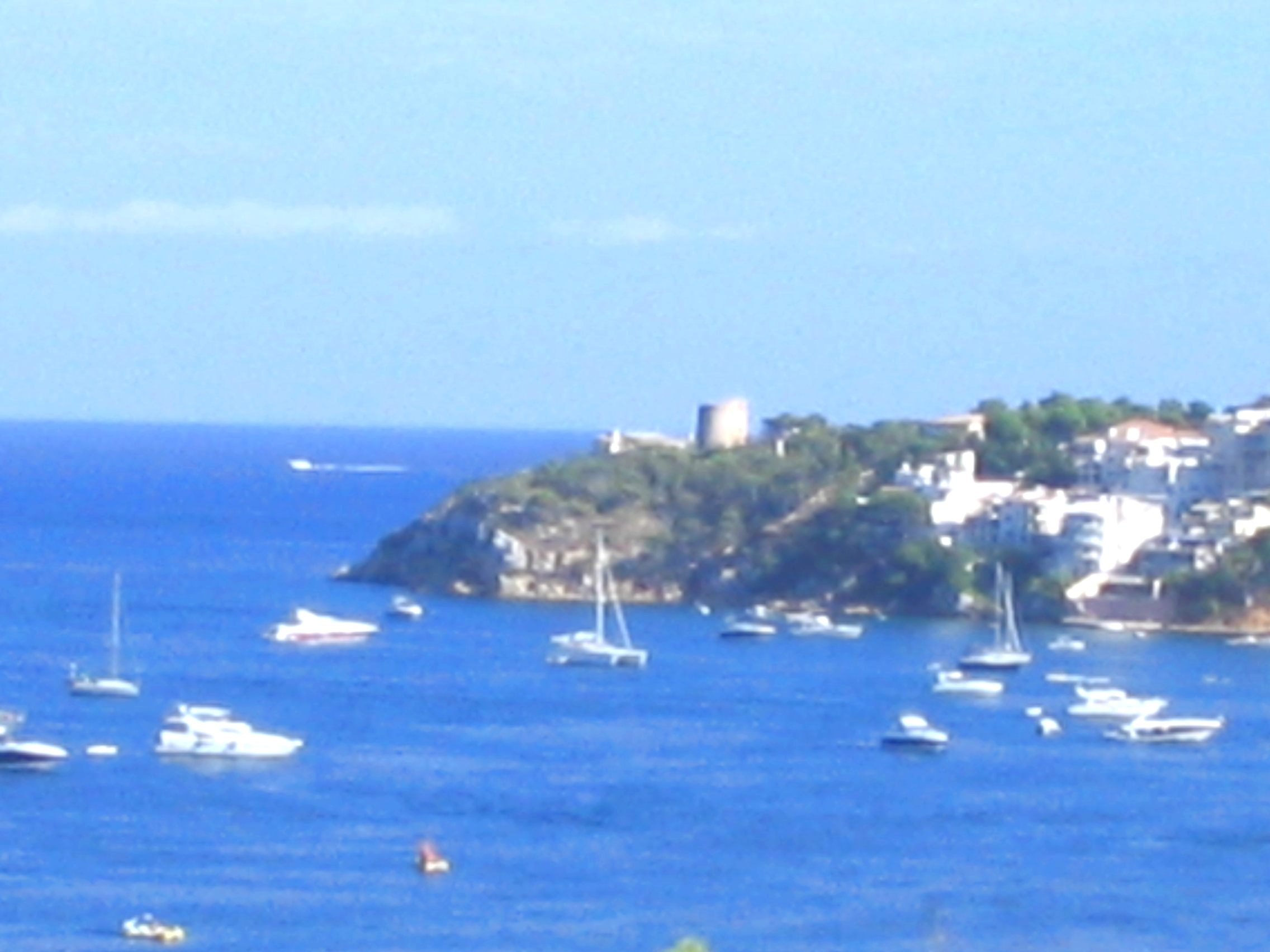 Bay of the holiday resort called Palma Nova in Calvià, Mallorca, Spain.